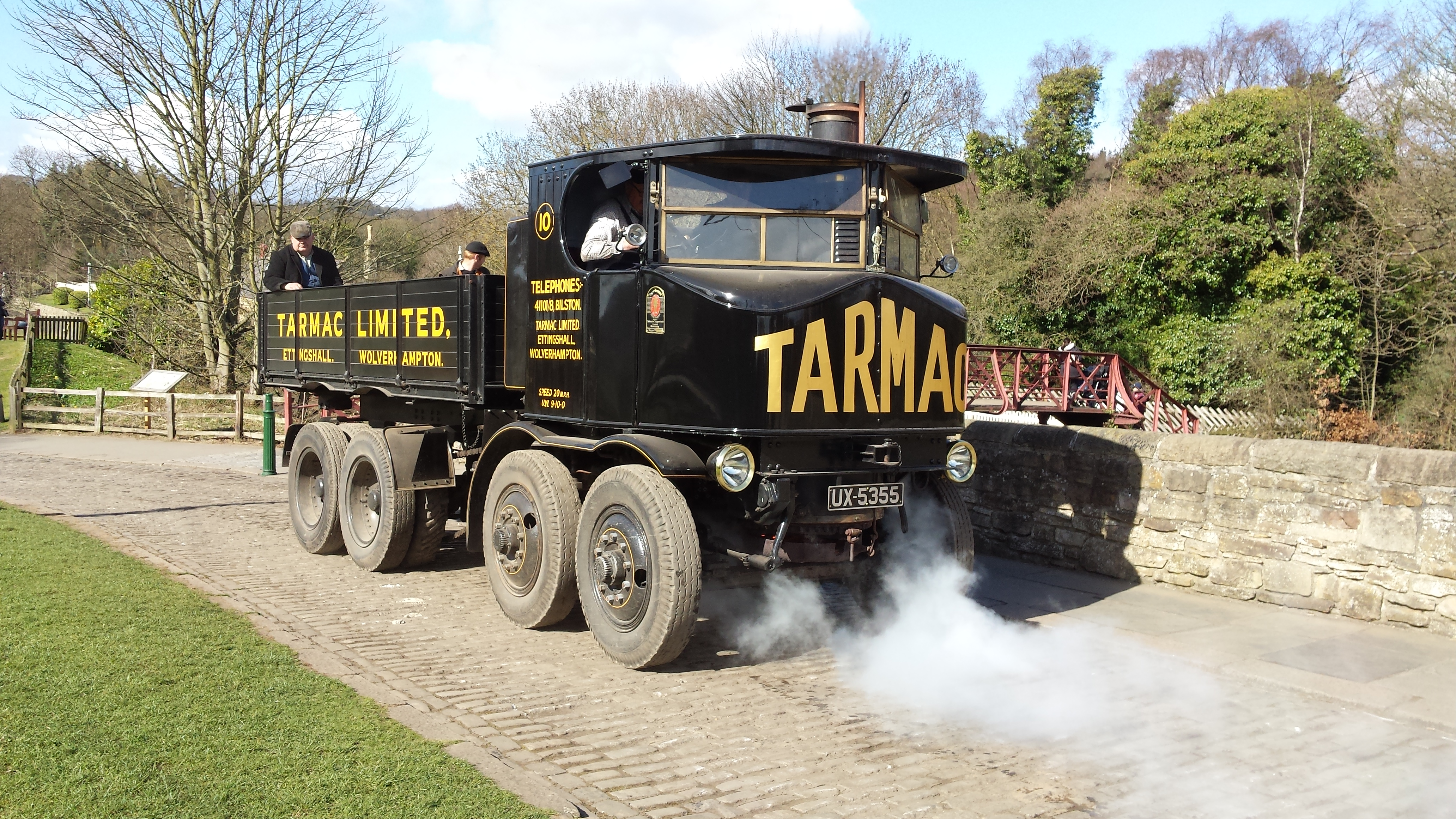 This is a picture of the last surviving Sentinel DG8, taking at Beamish Steam Fair.